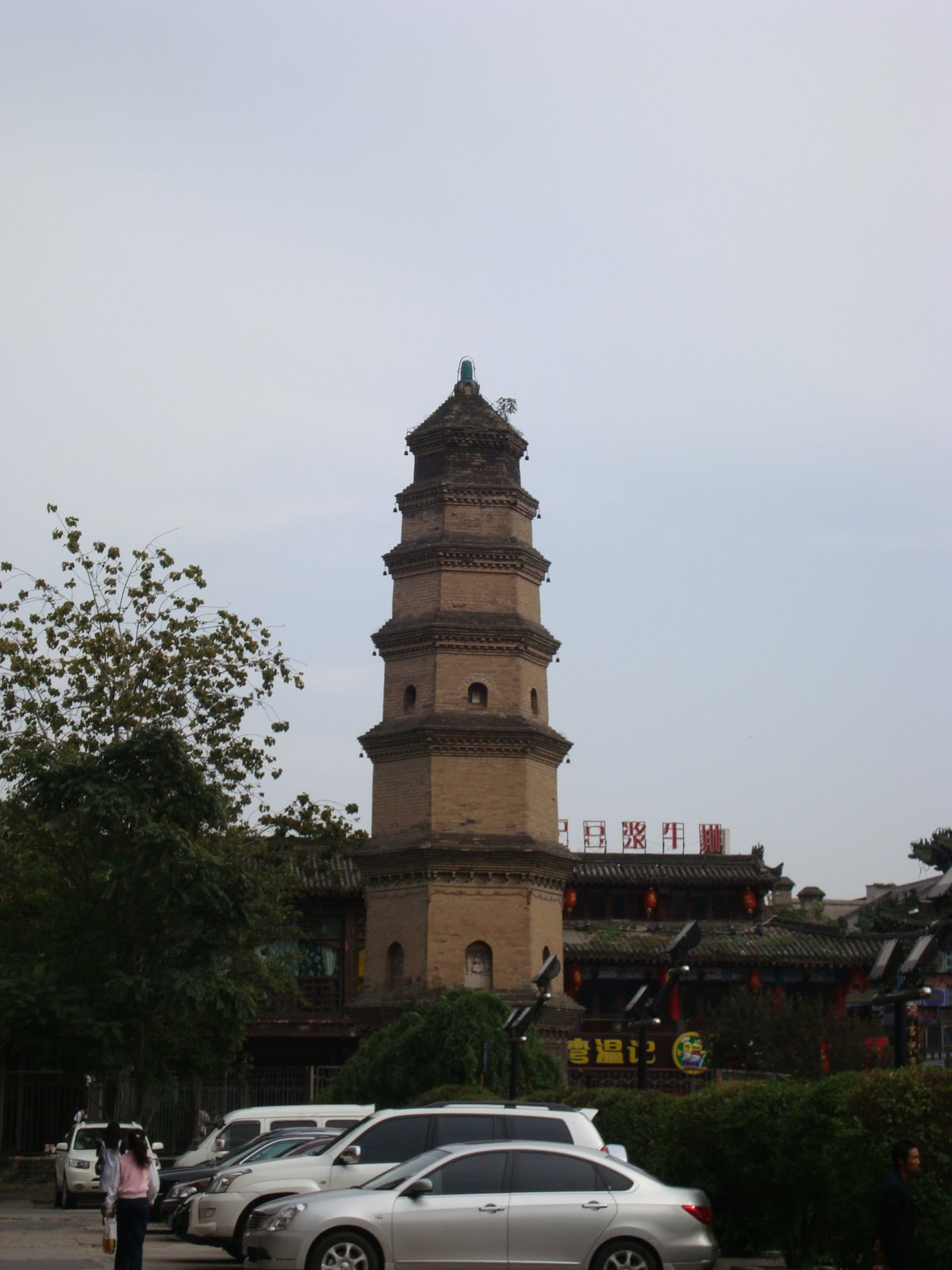 Baoqing Temple Pagoda in Xi'an 中文（中国大陆）: 西安的宝庆寺塔